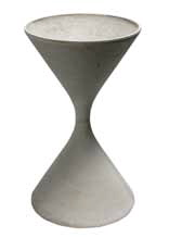 Planter